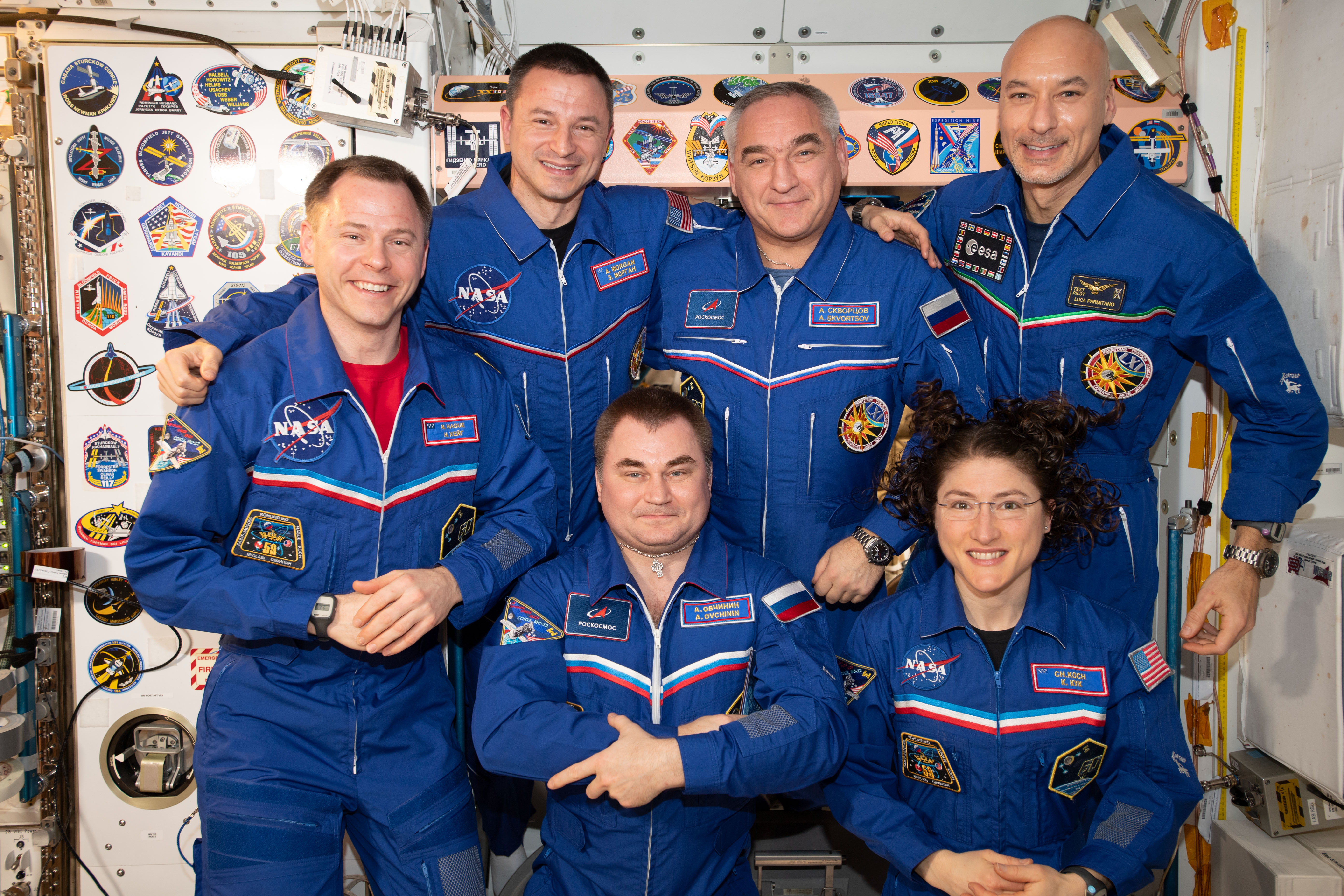 The six-member Expedition 60 crew from the United States, Russia and Italy gathers for a portrait inside the International Space Station's Unity module. Clockwise from left, are NASA astronauts Nick Hague and Andrew Morgan, Roscosmos cosmonaut Alexander Skvortsov, ESA (European Space Agency) astronaut Luca Parmitano, NASA astronaut Christina Koch and station commander Alexey Ovchinin of Roscosmos. On the wall to the rear of the crew, are stickers representing the insignia of space station crews and space shuttle missions that visited the orbiting lab.